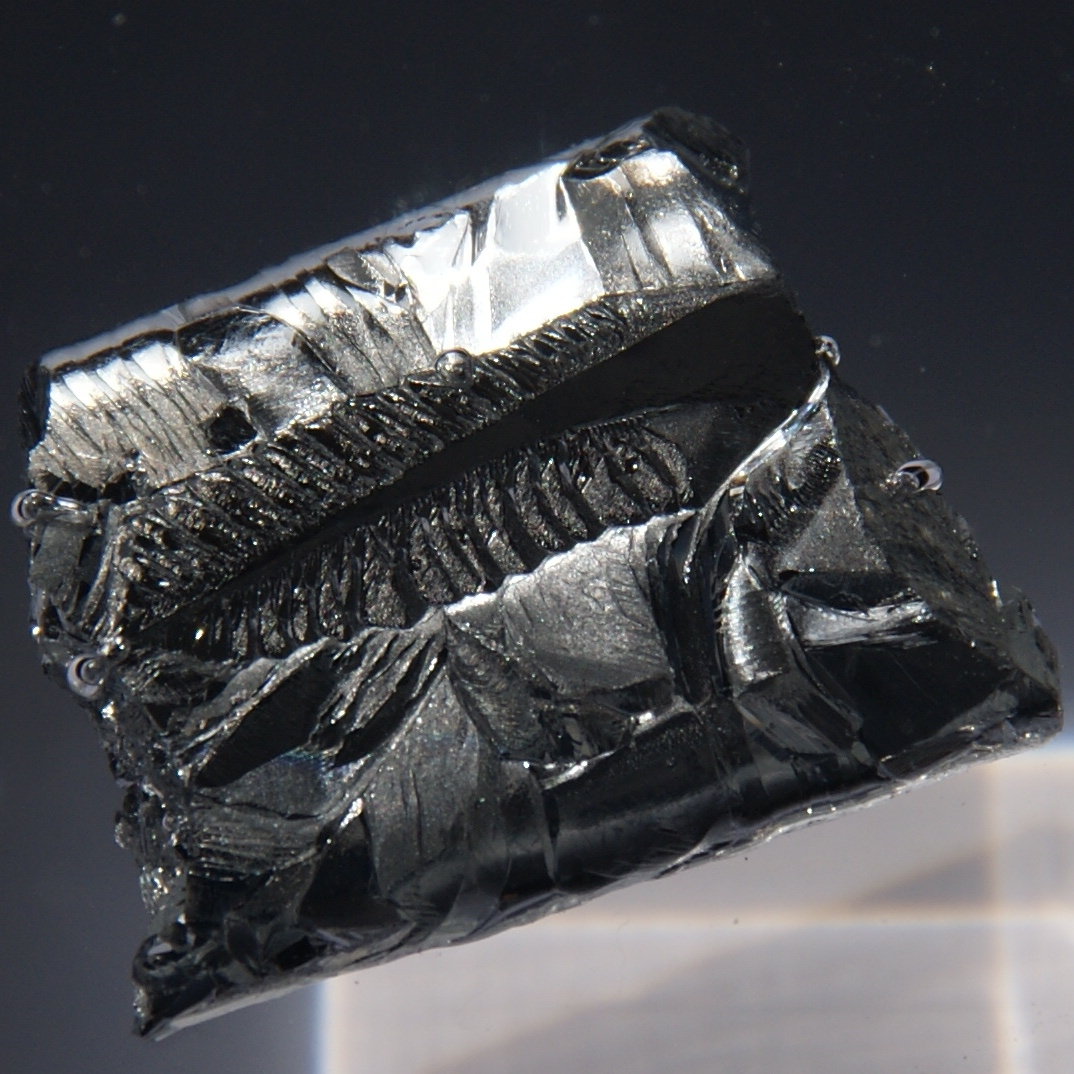 Ultrapure metallic Antimony piece.